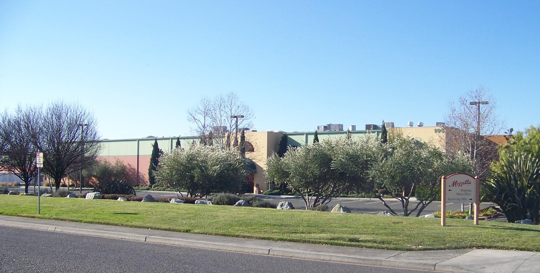 A photo of the factory of Mezzetta, located in American Canyon, CA